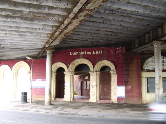 Entrance to Dumbarton East train station